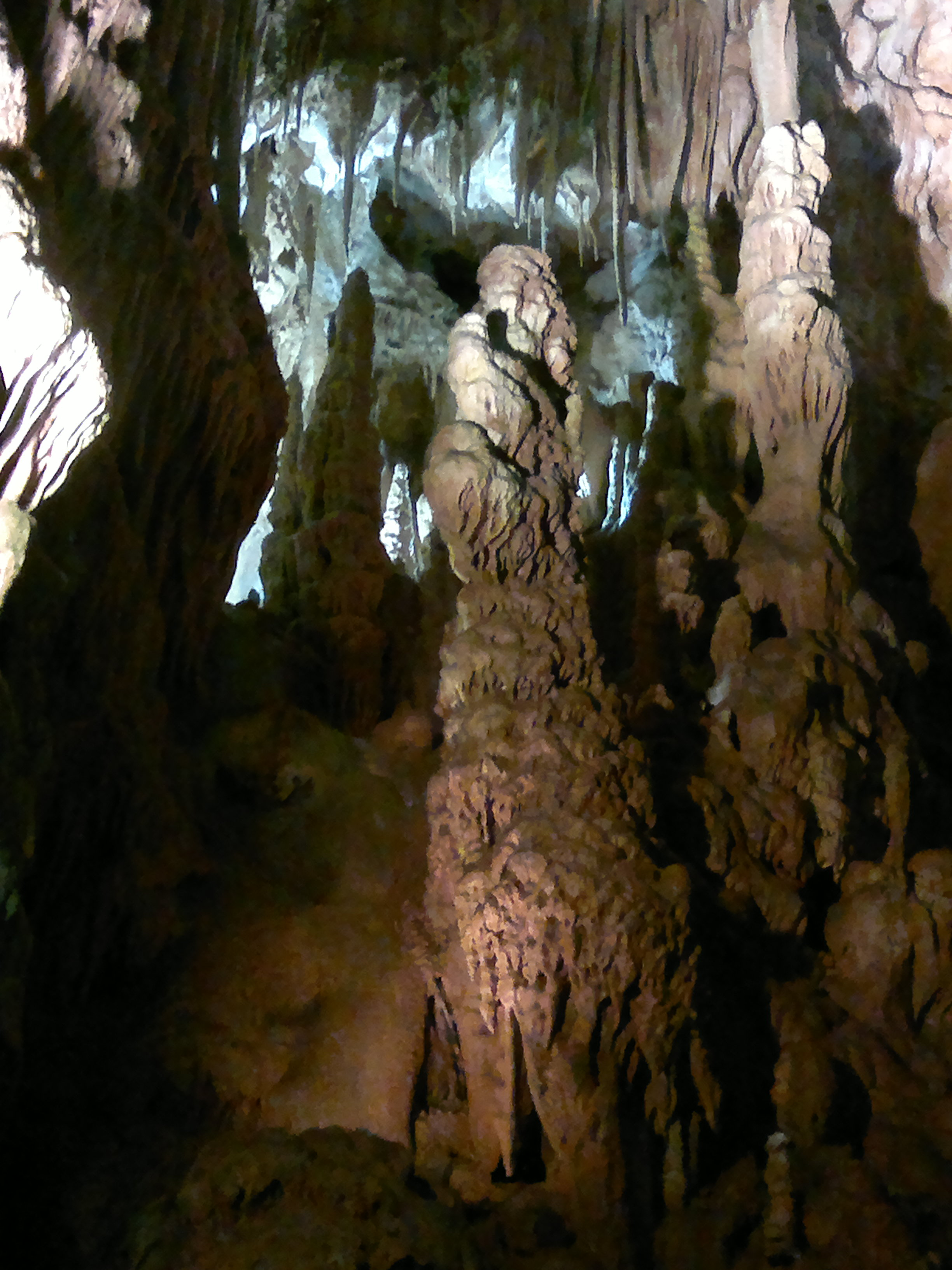 Natural made figure in Resava cave resembling mother with child, symbol of Resava cave